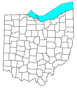 Locator map of the unincorporated community of Painesville-on-the-Lake in Lake County, Ohio, United States.